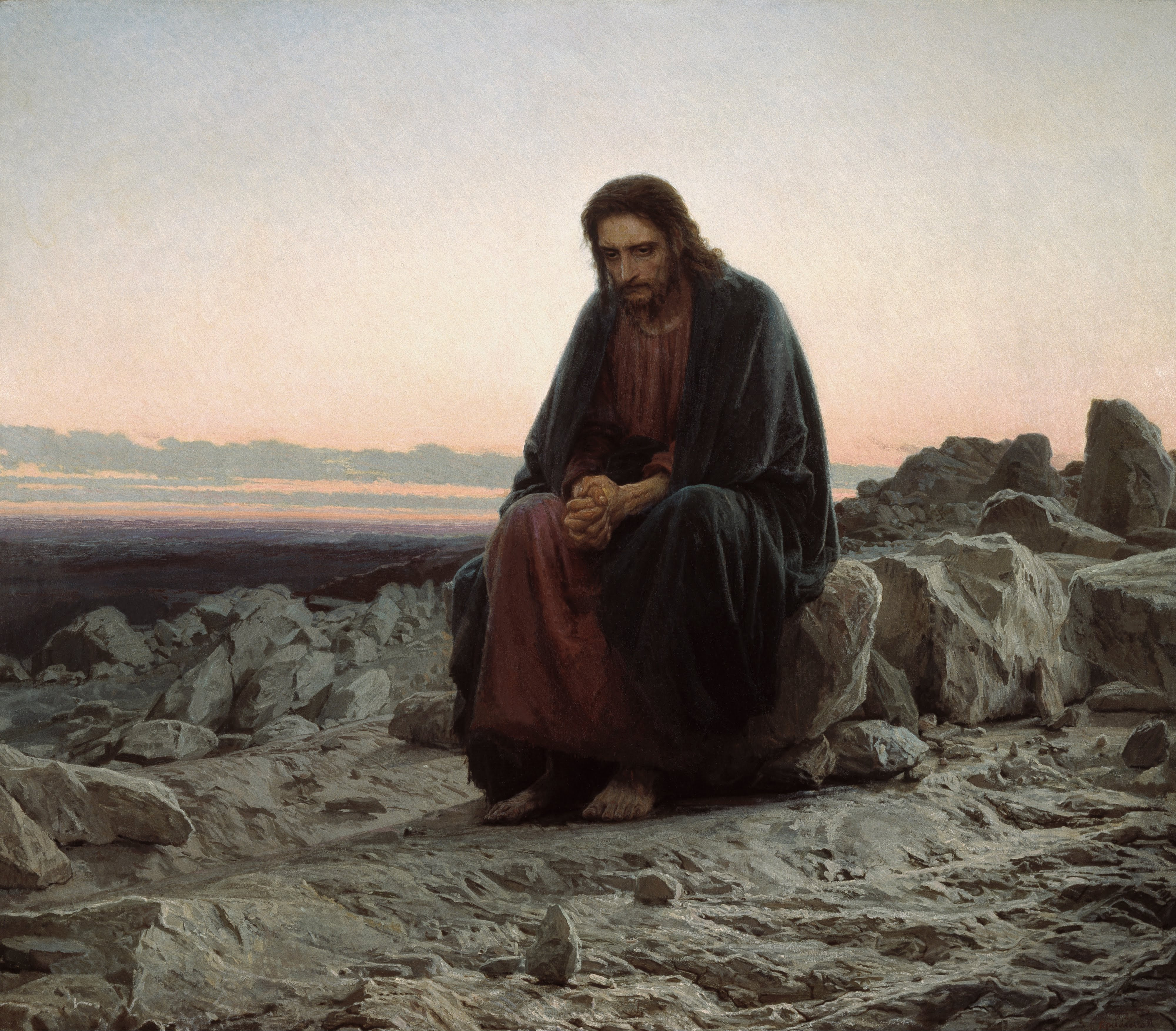 Scan by the Google Cultural Institute